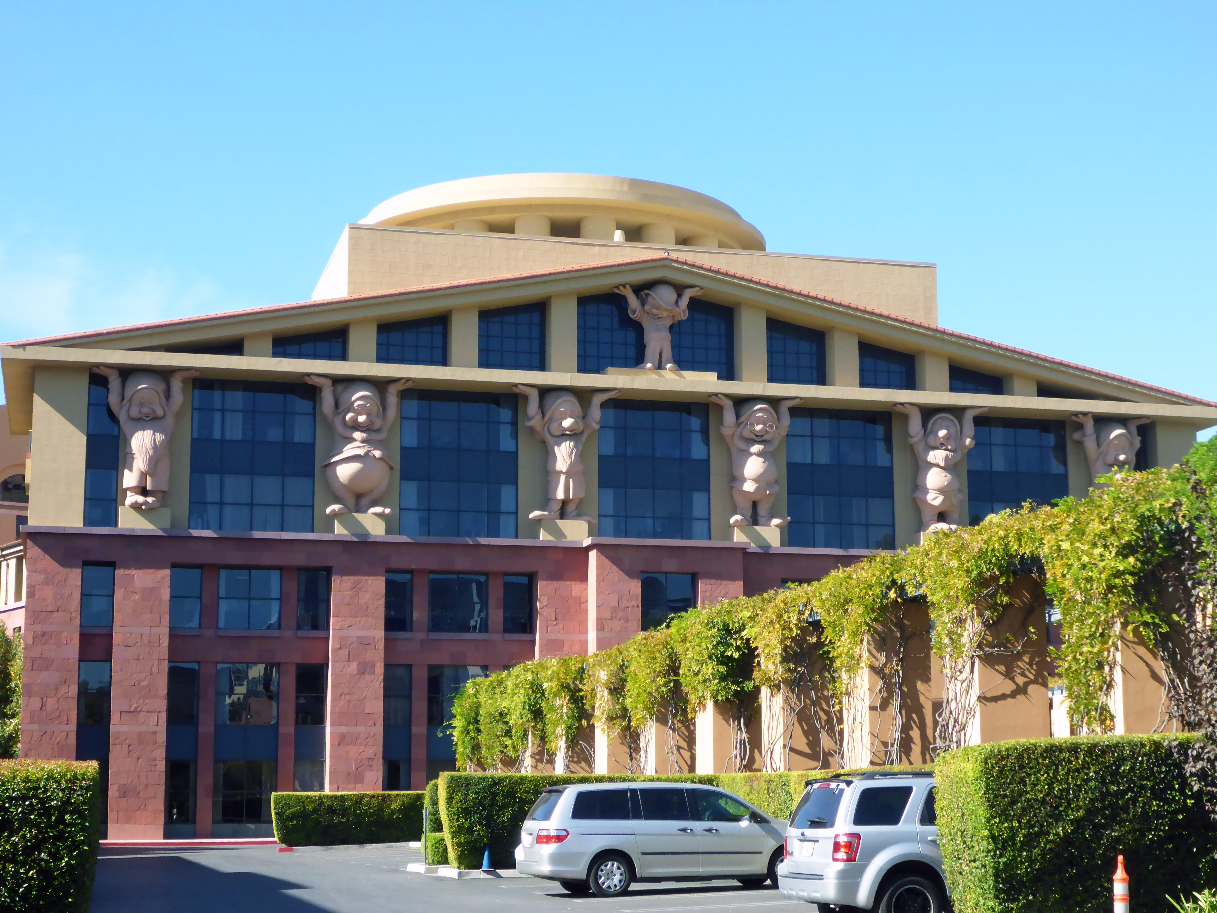 The Team Disney - Michael D. Eisner Building at the Walt Disney Studios in Burbank, California. Photographed by user Coolcaesar on November 8, 2014.